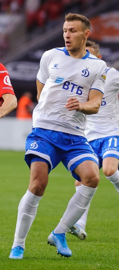 Sergei Parshivlyuk with FC Dynamo Moscow in a game against FC Spartak Moscow.